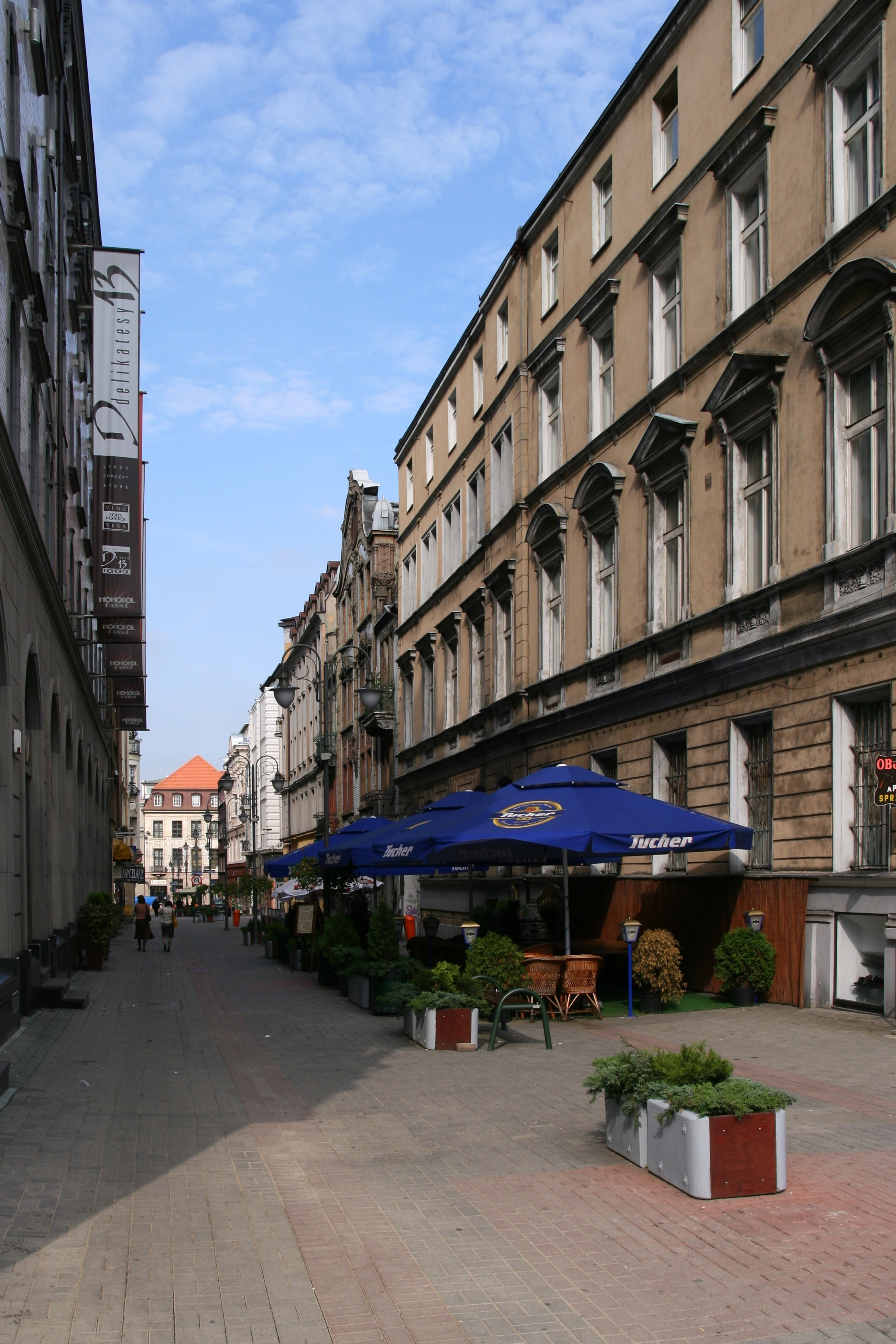 Dyrekcyjna Street in Katowice (Poland).